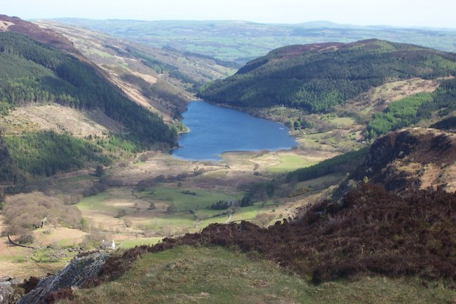 Llyn Crafnant from the summit of Crimpiau. A Southeasterly view of Llyn Crafnant below from the summit of Crimpiau at grid reference SH 73297 59572.